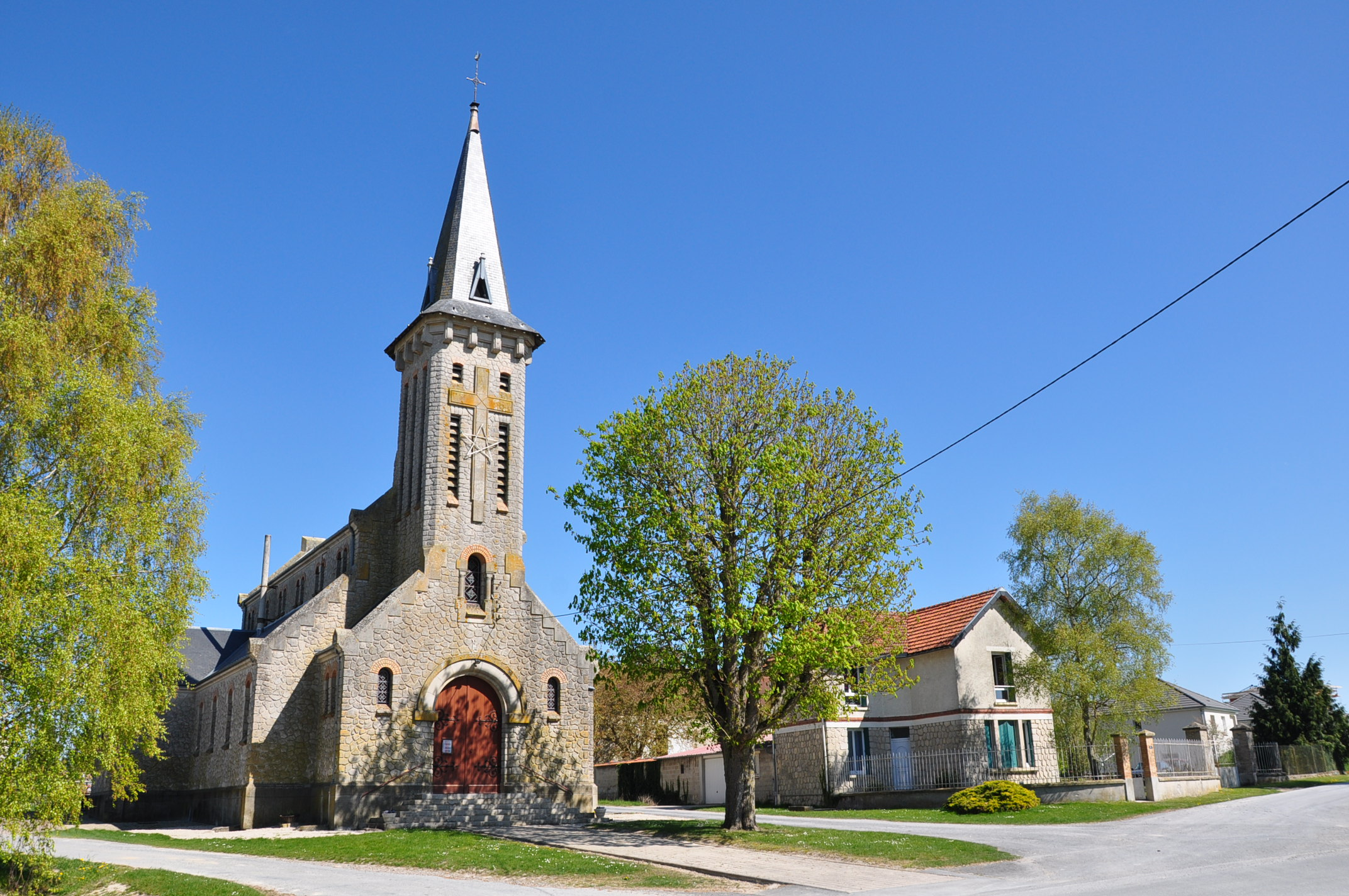 Church of Saint-Hilaire-le-Petit (Marne department, Champagne-Ardenne region, France).